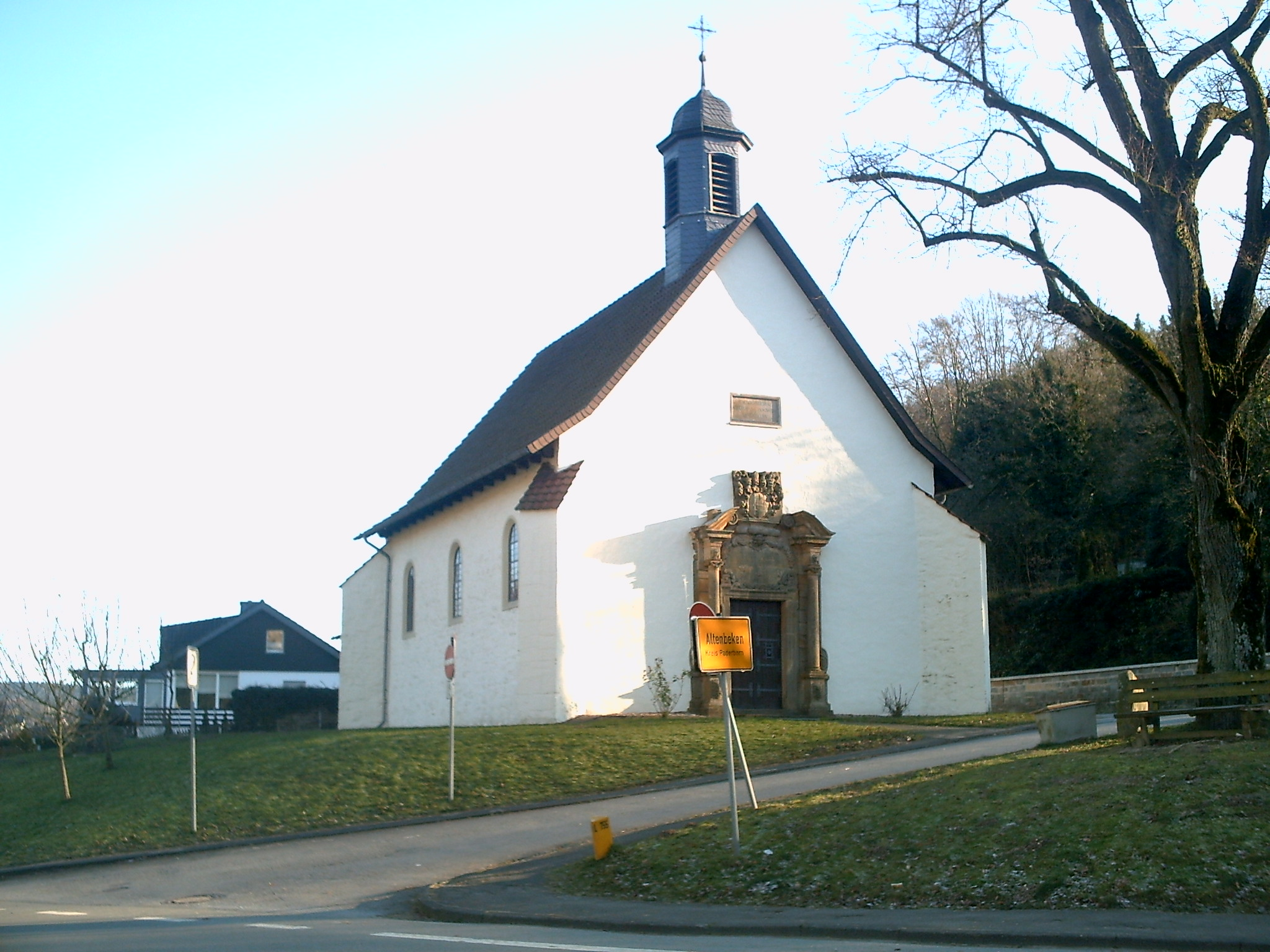 Crucifix chapel in Altenbeken, Germany (built 1669)